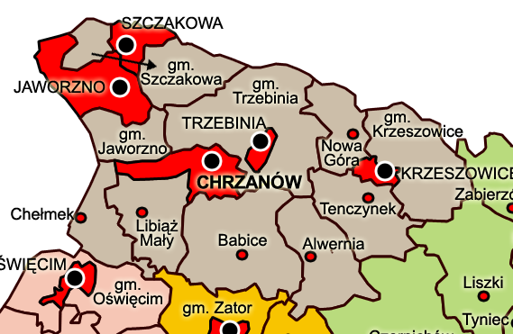 Chrzanów County in 1938